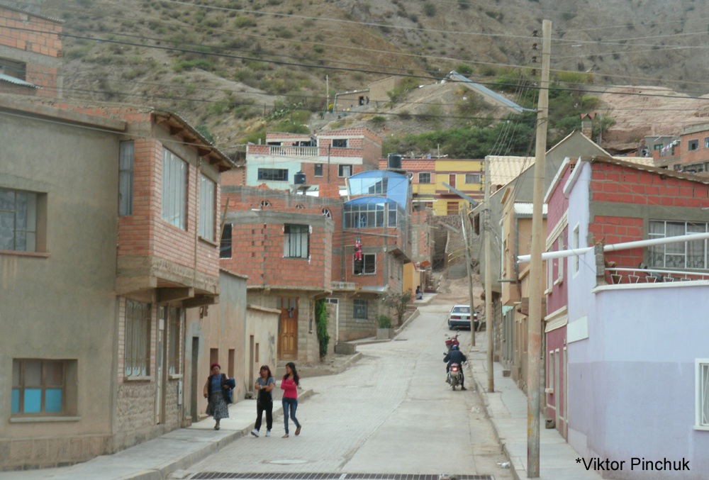 Bolivia, photo from book Pinchuk V. "200 days in Latin America" (page 32)